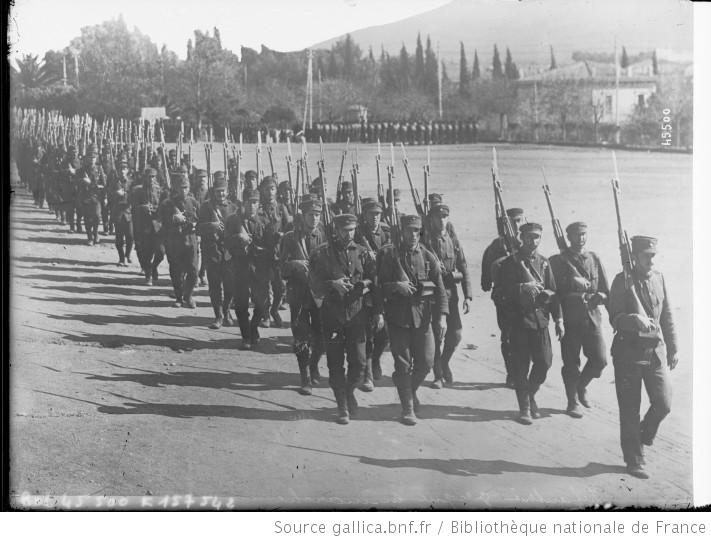 Greek infantry marching during the mobilisation of summer 1915